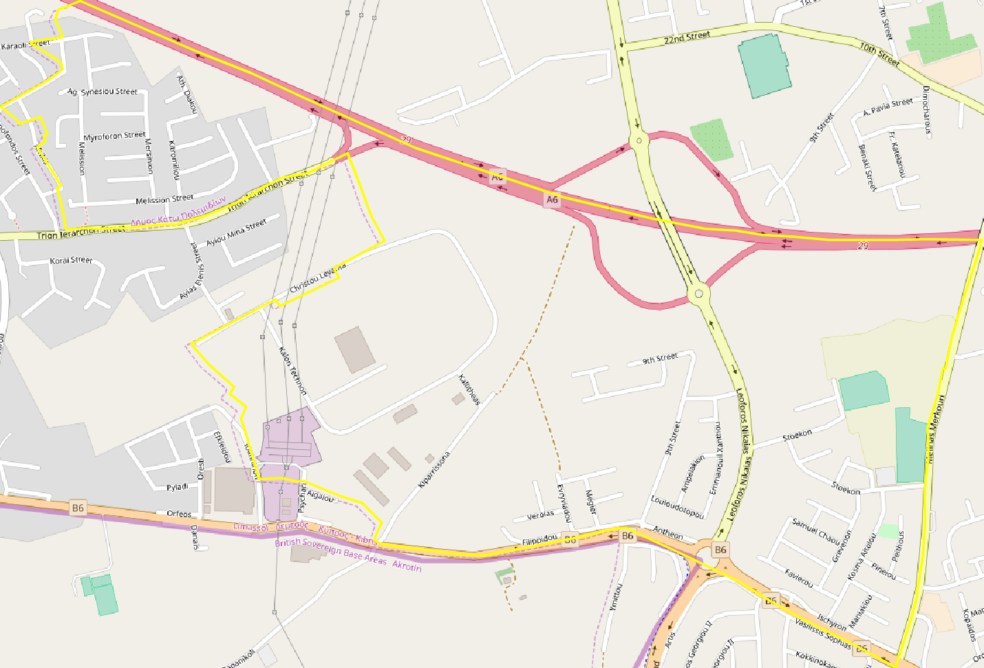 Map of Anthoupoli (Kato Polemidia).